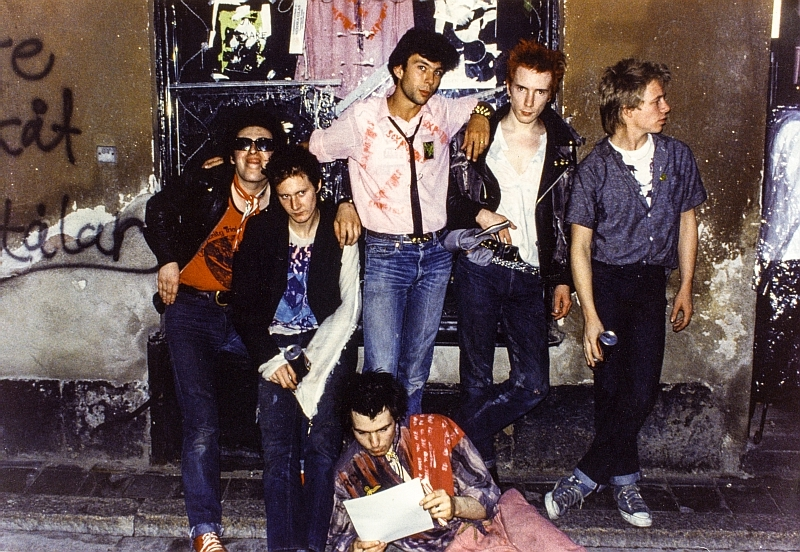 Thomas Dellert and the Sex Pistols 1978 (or 1977?).